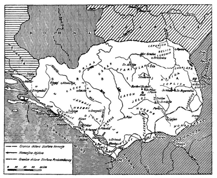 Serbia during the rule of Prince Stefan Nemanja and his son Stefan II Prvovencani, cca 1150-1220 Scaned from History of Ancient Balkan Countries, University of Belgrade, 1922. In private detence of uploader.